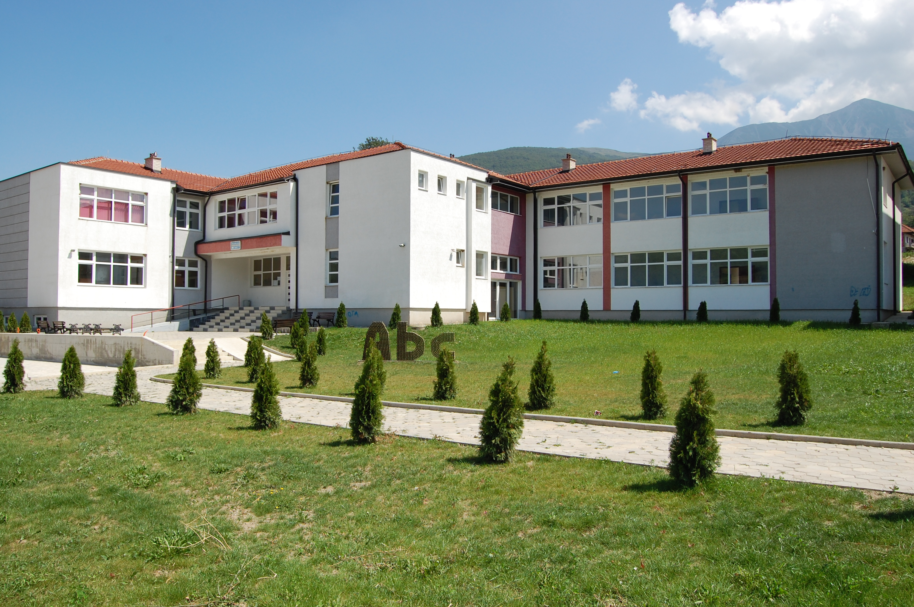 Gjimnazi "Kongresi Manastirit"